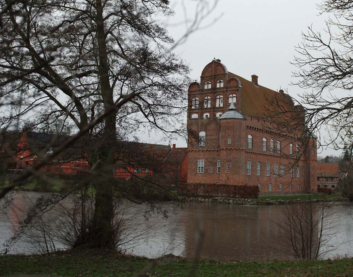 Hesselagergaard